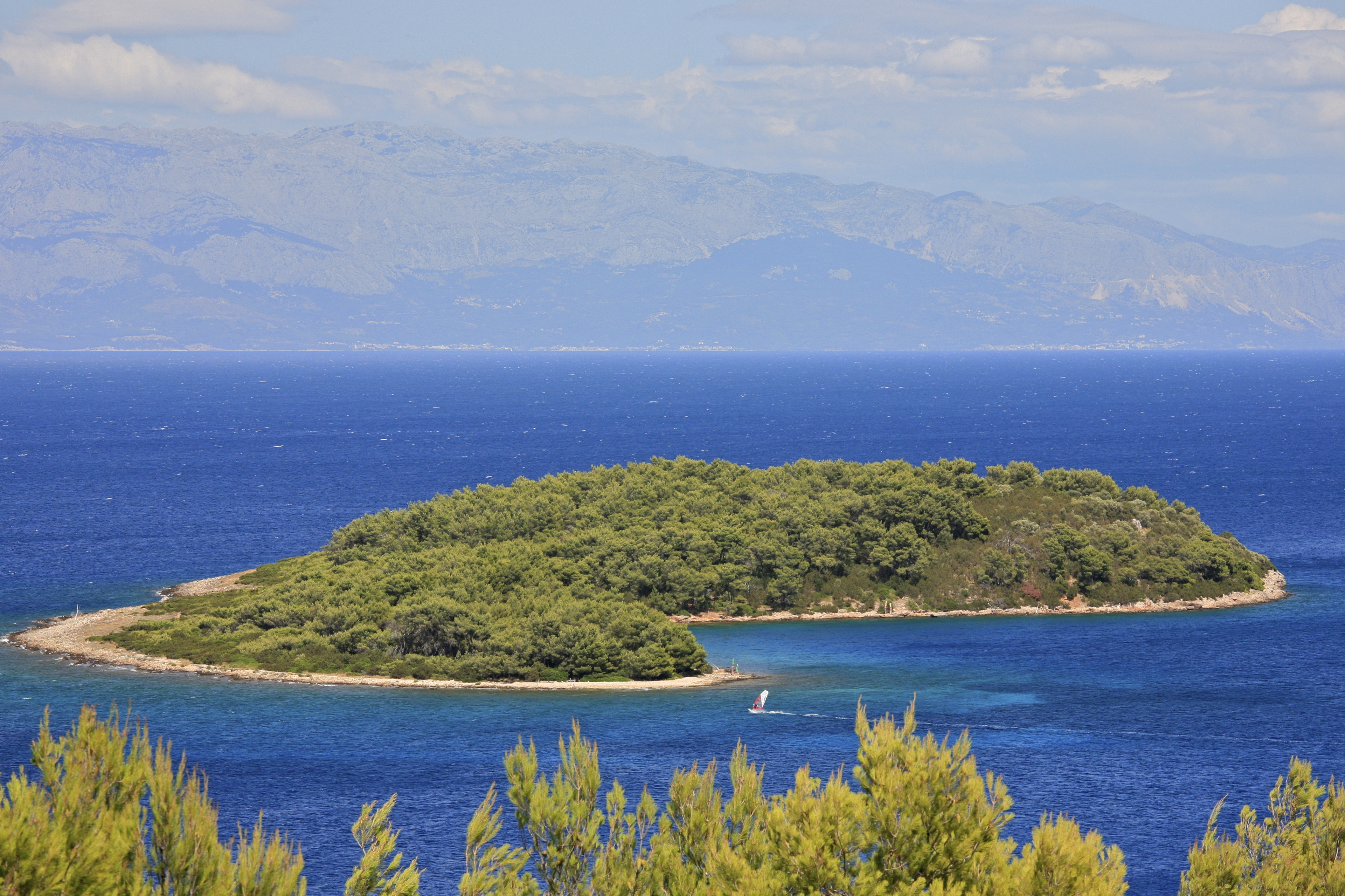 The whole island is designated a naturist area. Naturist beach on Zečevo island is open in high season and is a 15 minute taxi boat ride from the town of Jelsa on the island of Hvar. Nice pebble beaches and pine woods to provide shade.